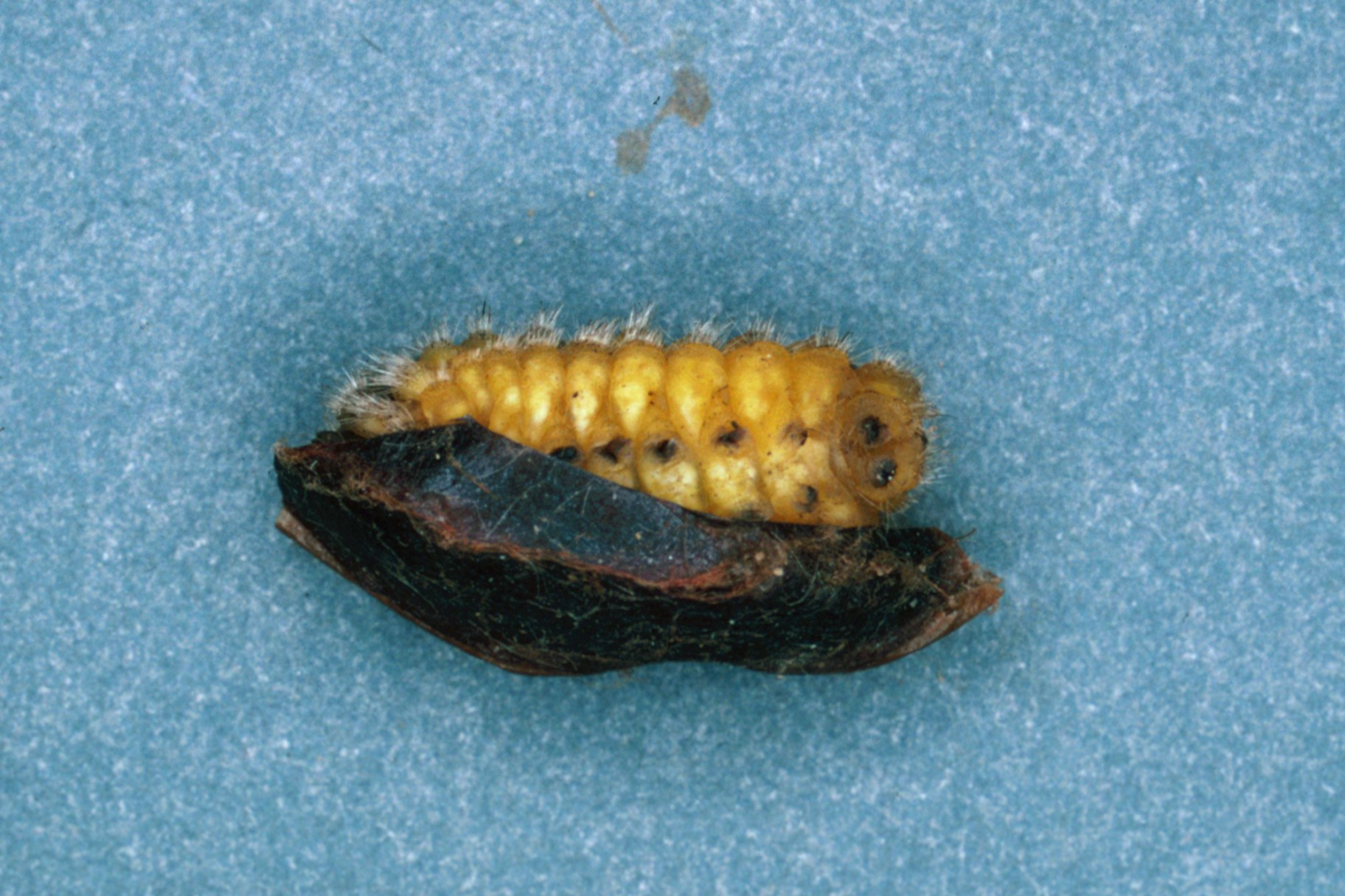 Norape ovina pupa UGA1430137